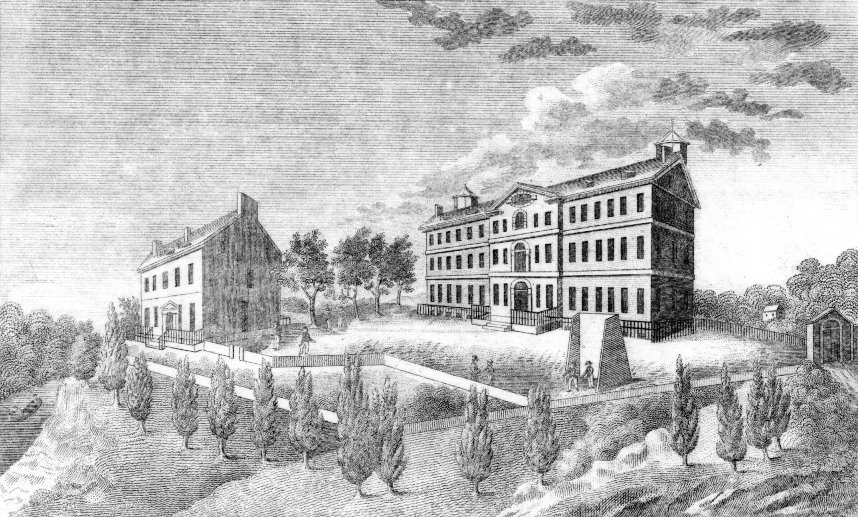 Engraving of the Georgetown University campus in 1829. The first college building, Old South, is on the left. On the right is Old North. In the foreground in a handball alley. Published in a prosectus sent out to advertise the college in 1829. It is the earliest known image of the campus in the university's archives.